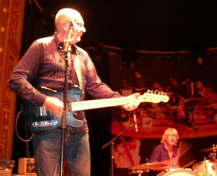 Ulf Dageby with Nationalteatern, at Berns in Stockholm, 2006.